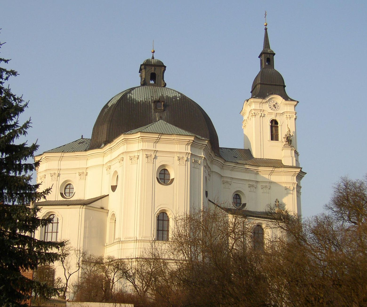 Church of the Holy Name of Virgin Mary in Křtiny, Czech Republic.